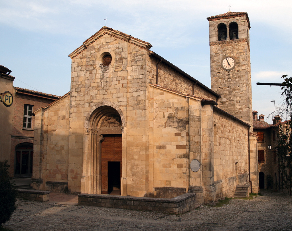 San Giorgio, Vigoleno (PC), Italy